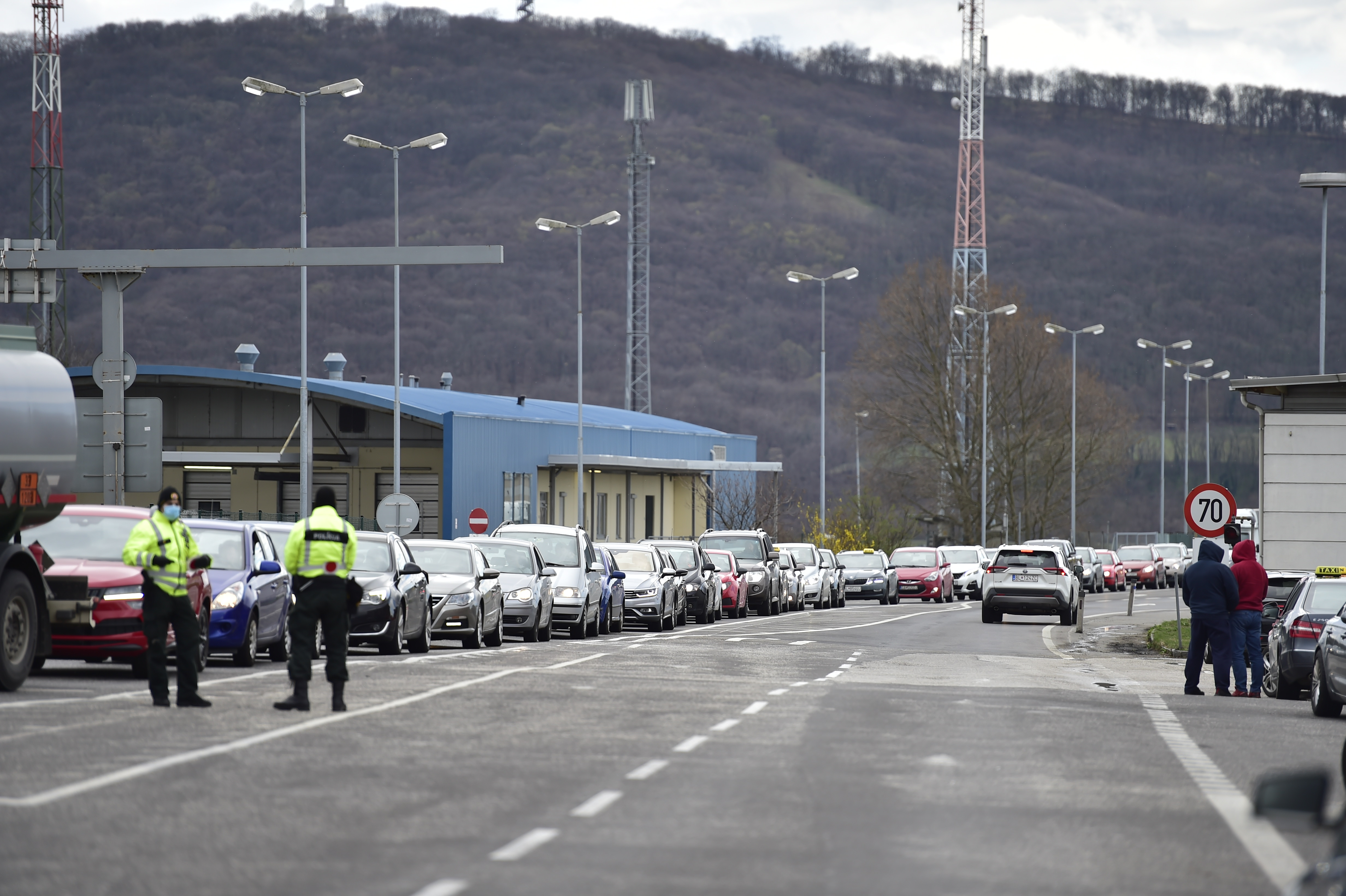 Coronavirus pandemic in Slovakia